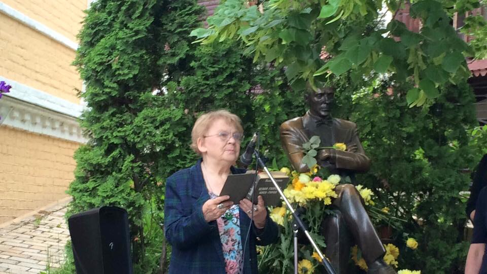 Marietta Chudakova reads from Mikhail Bulgakov's "The White Guard"